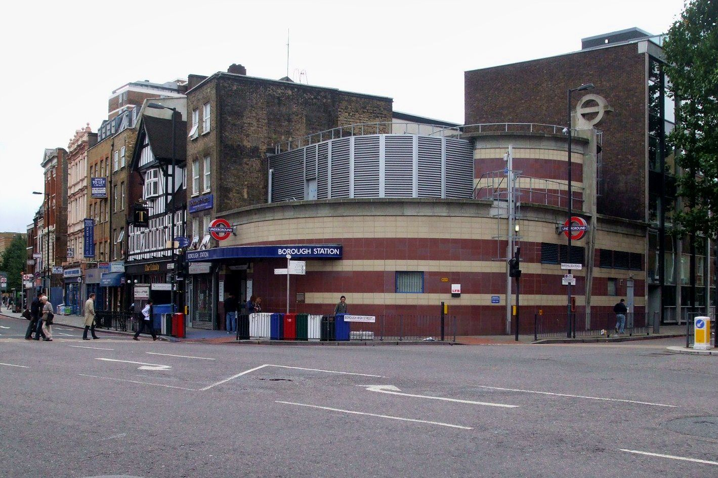 Borough tube station building